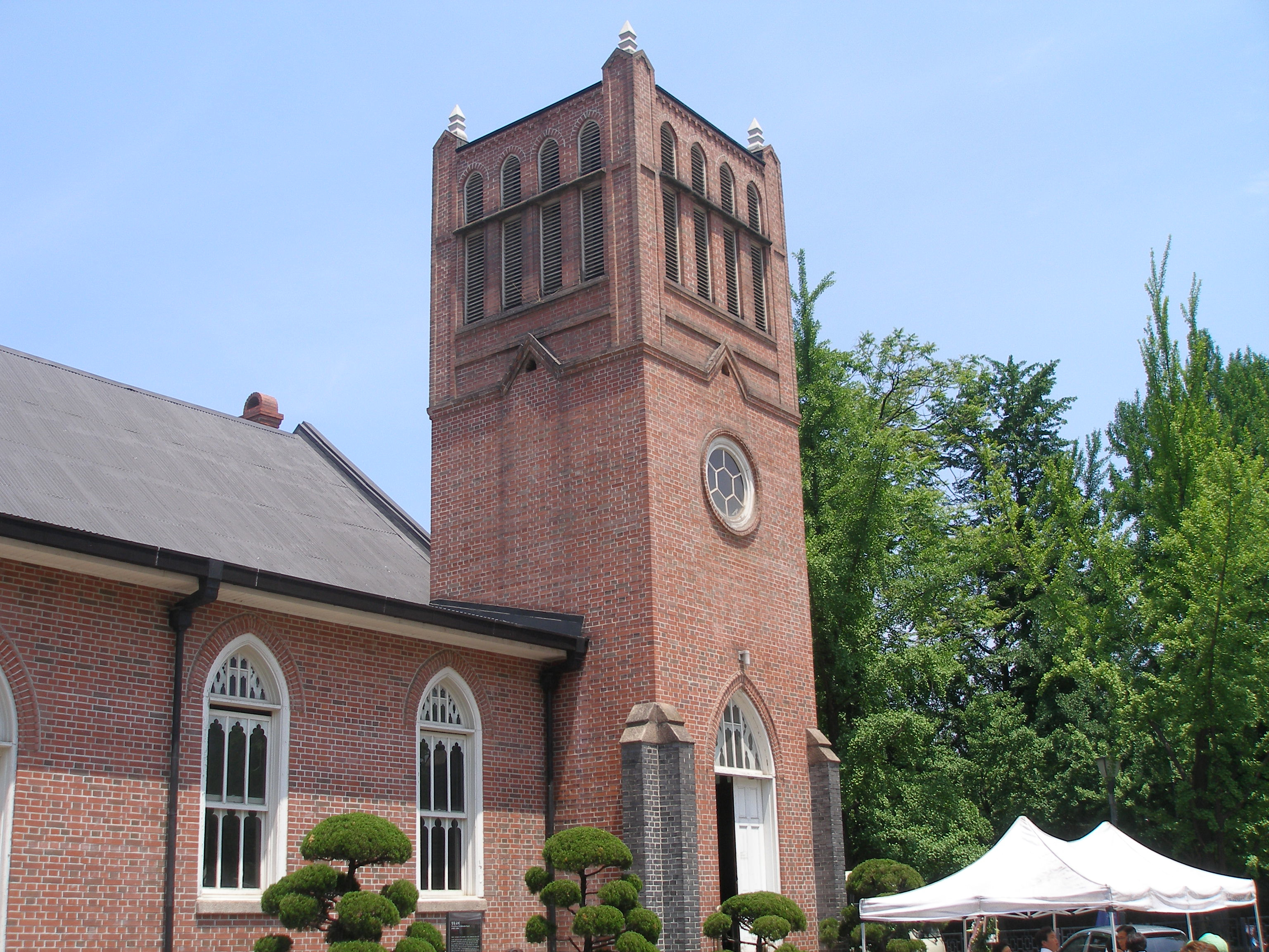 Exterior of Chungdong First Methodist Church in Jeong-dong, Seoul, South Korea